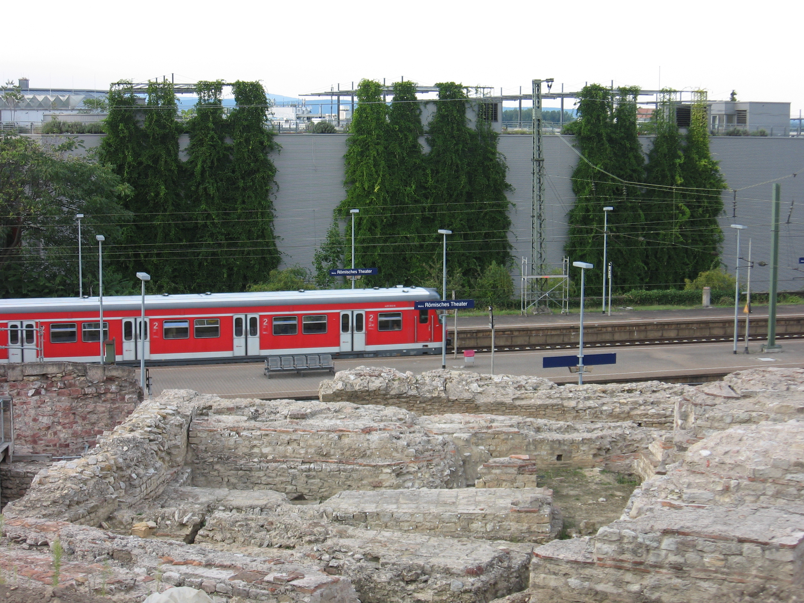 Station Mainz Römisches Theater